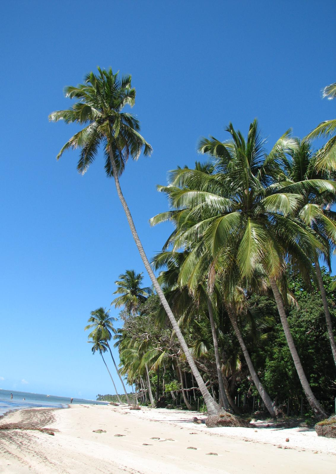 Carneiros Beach- Tamandaré - Pernambuco - Brazil